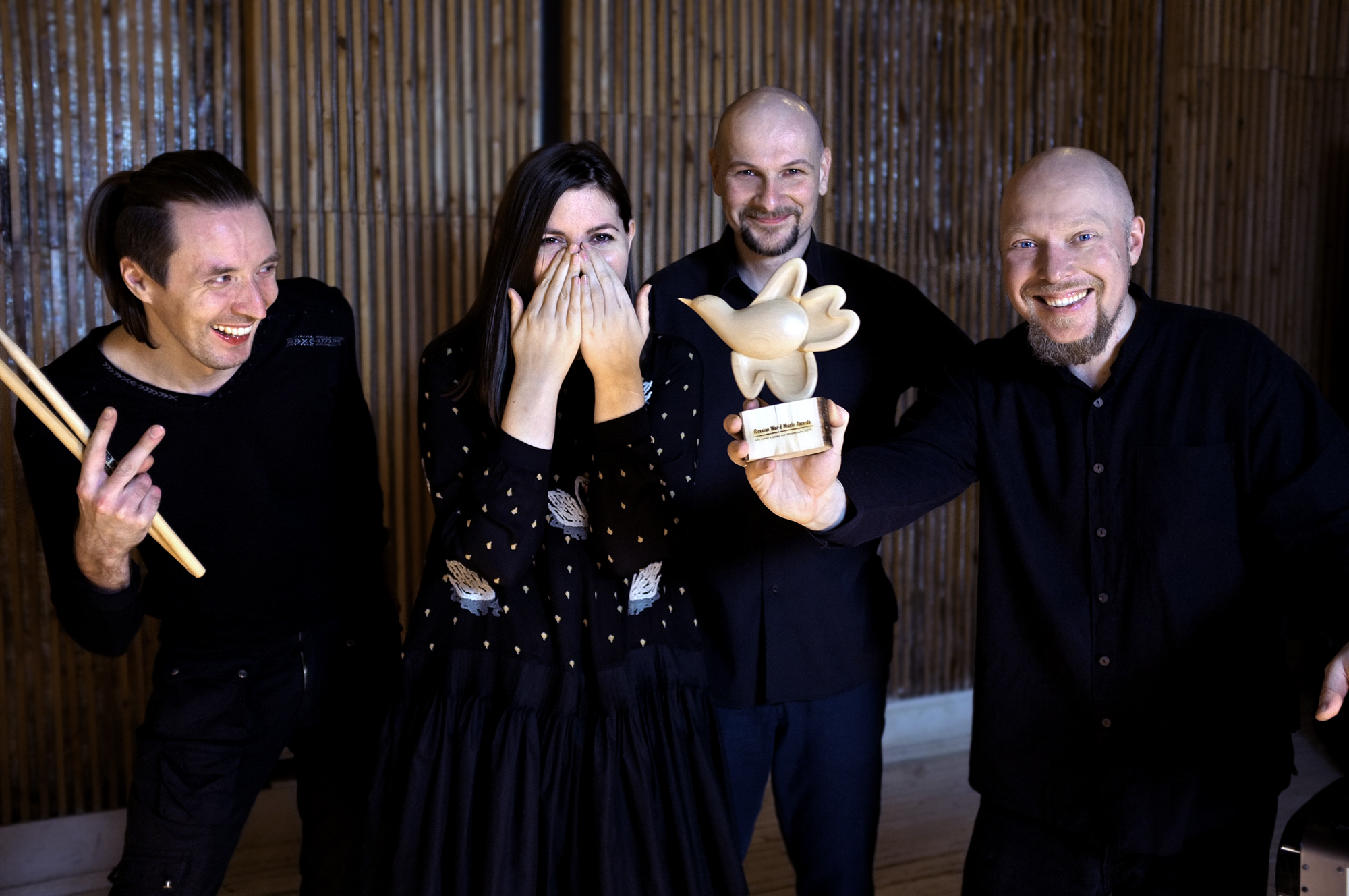 Theodor Bastard band have won Russian World Music Awards 2017